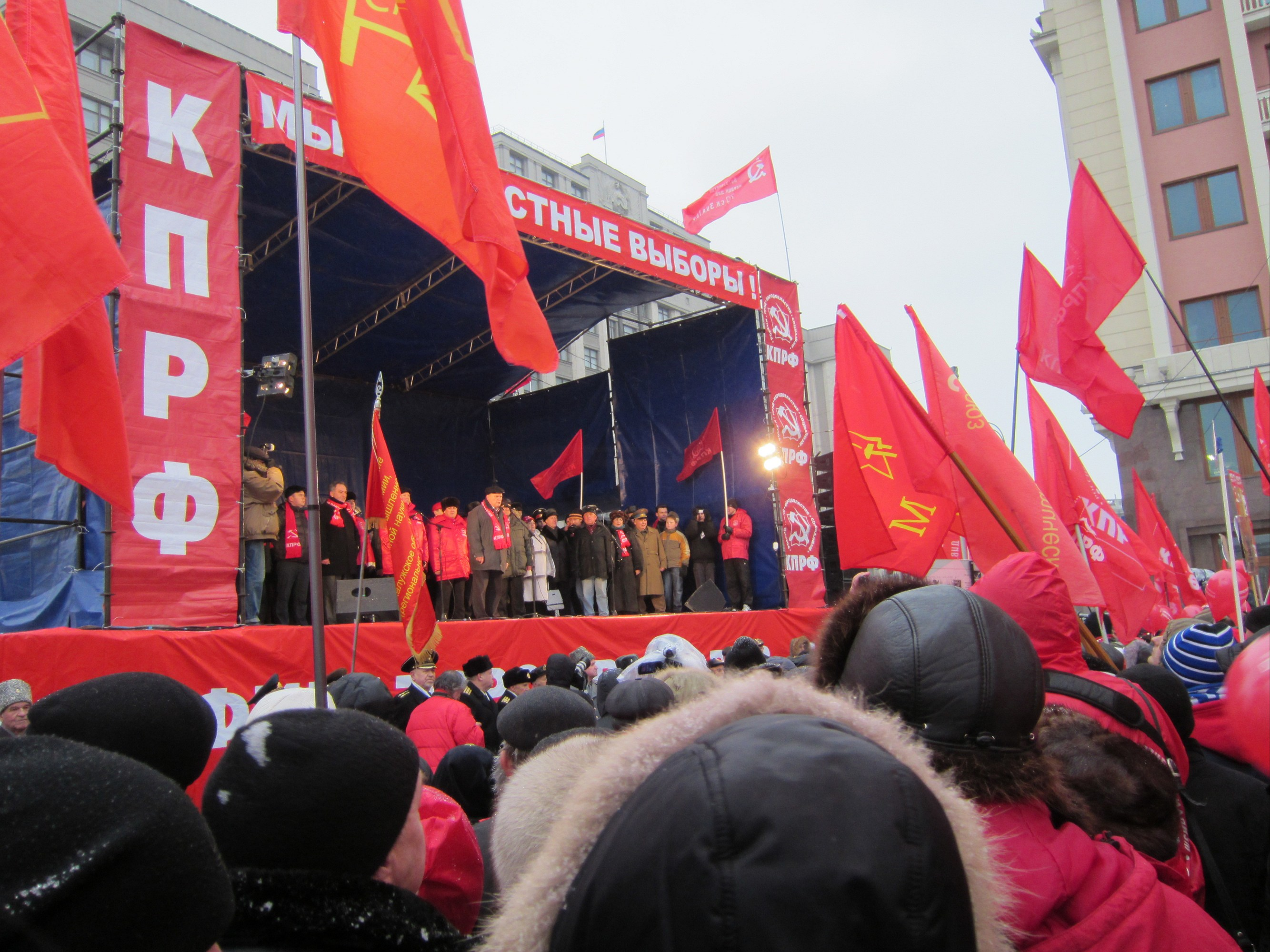 Communist Party of the Russian Federation meeting at Manezhnaya Square_3, Moscow, 2011-12-18; Gennady Zyuganov speech